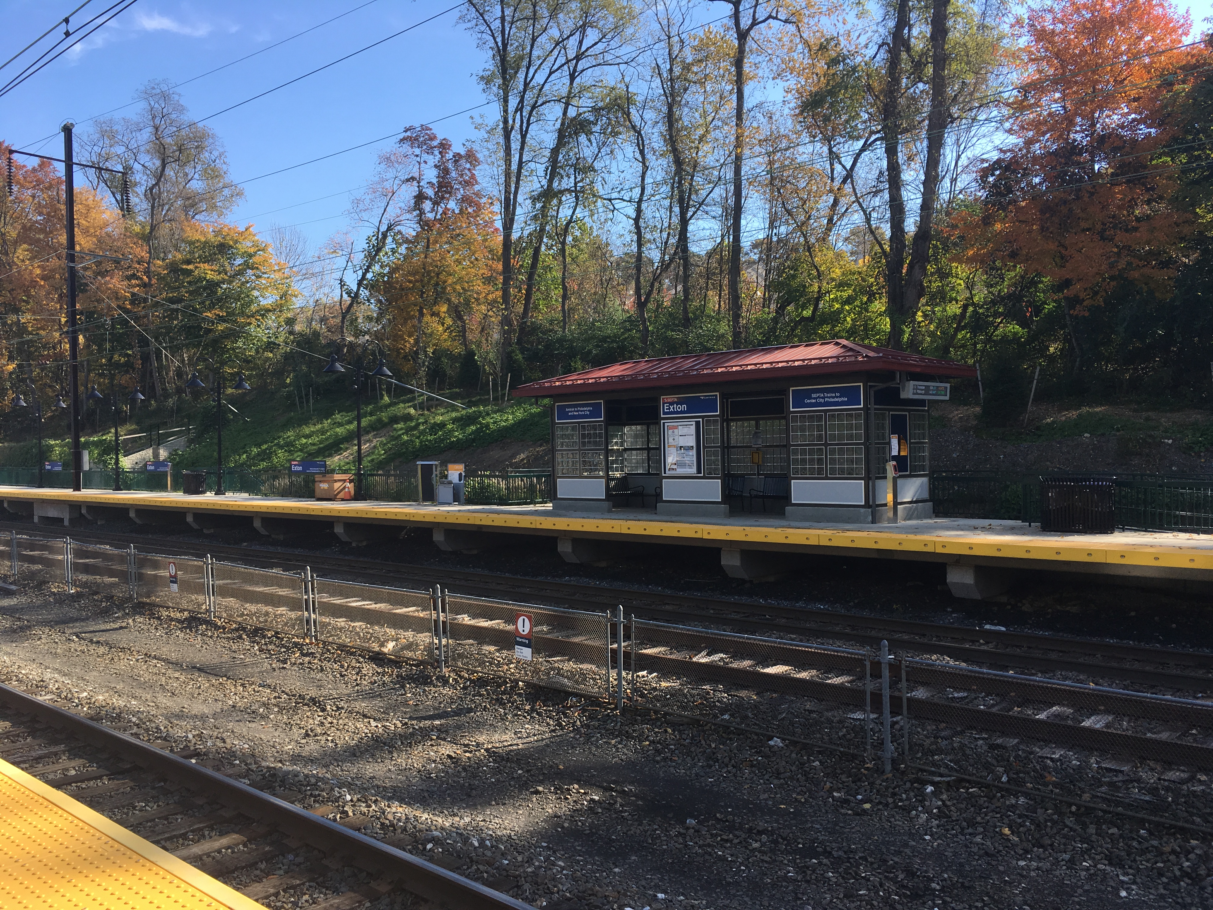 The Exton station on SEPTA’s Paoli/Thorndale Line and Amtrak’s Keystone Corridor in Exton, Pennsylvania viewed from the outbound platform